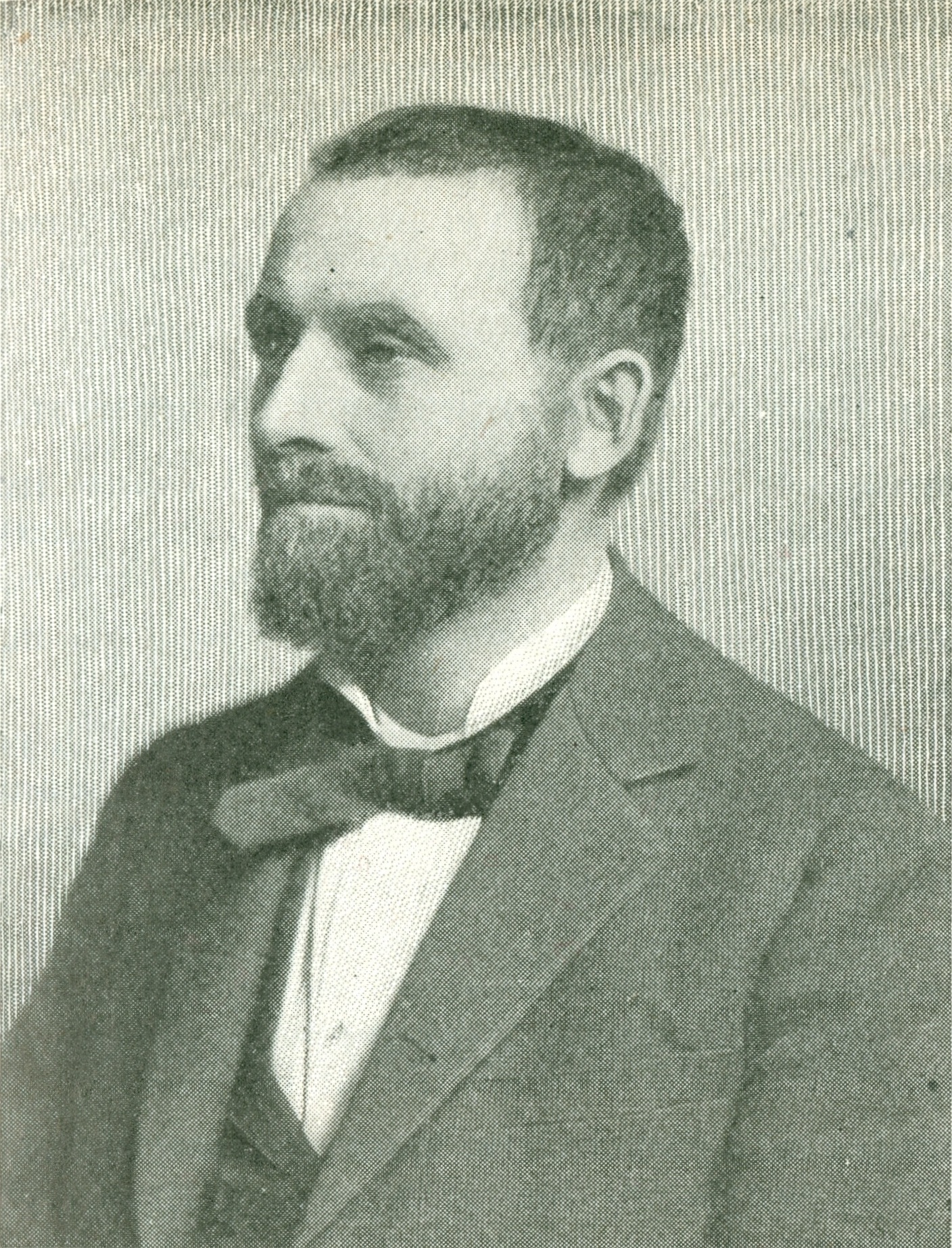 John Peter Altgeld (1847-1902), of Chicago, Cook County, Illinois. Governor of Illinois, 1893-97. Image from American Monthly Review of Reviews, April 1902.